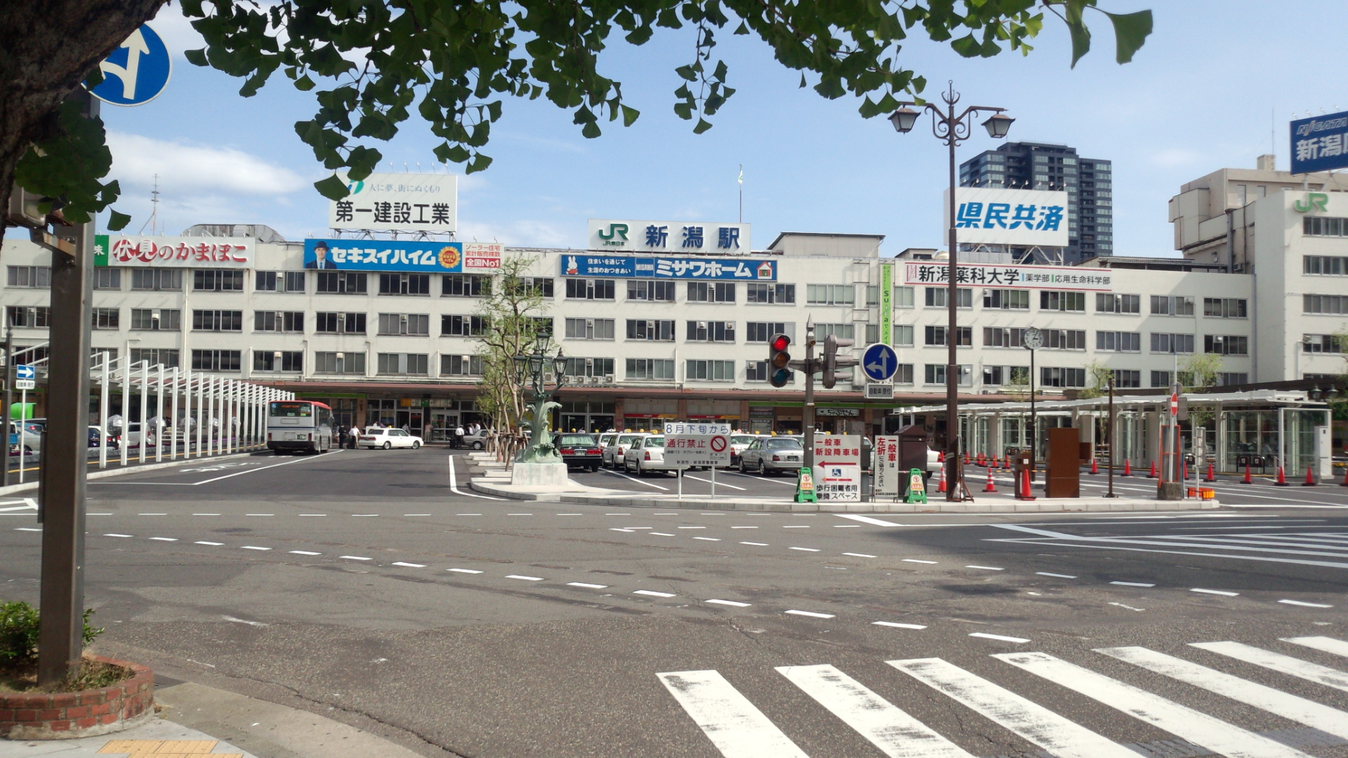 Niigata Station and Bandai Entrance forecourt